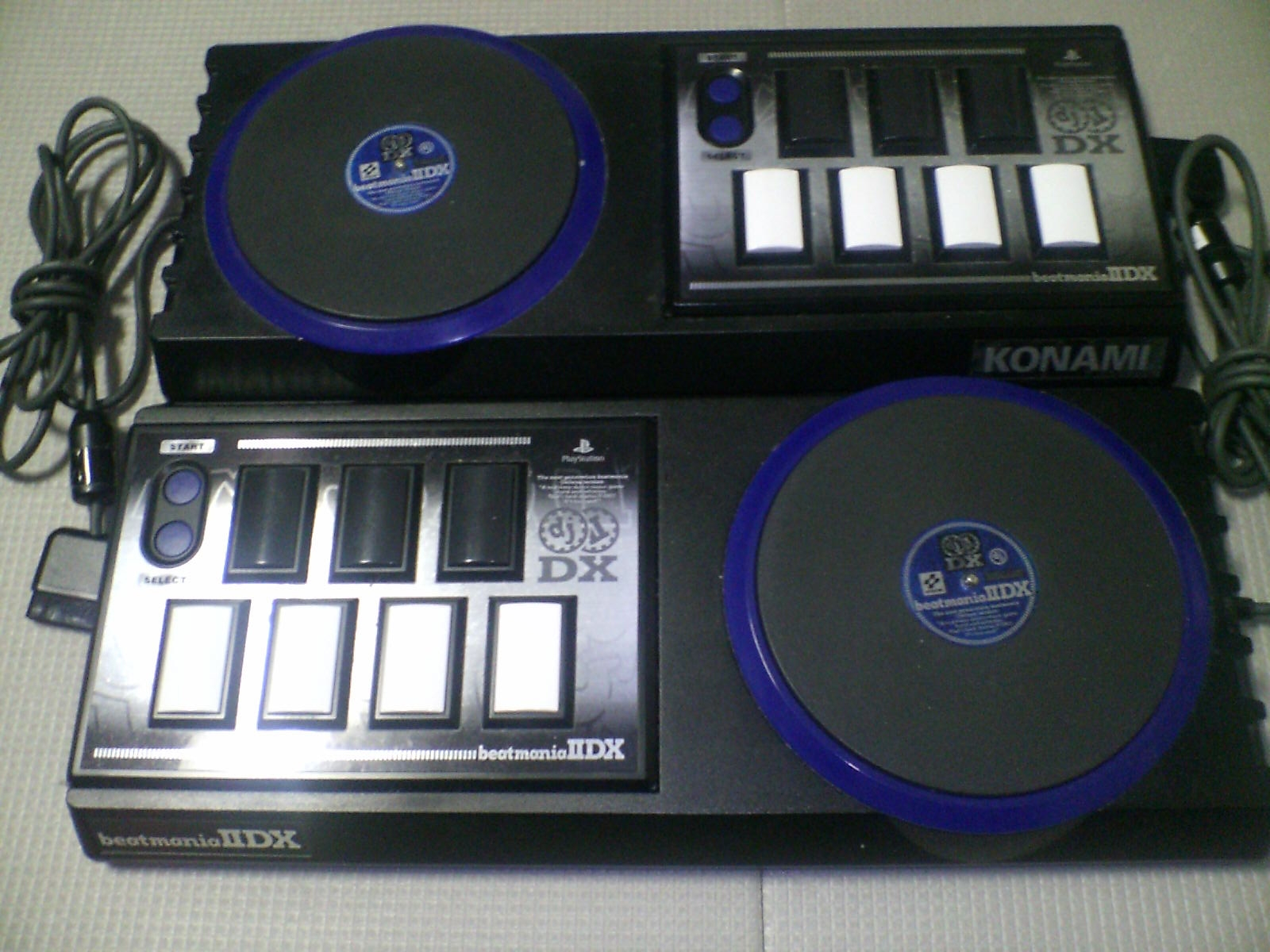 Controller for beatmania IIDX